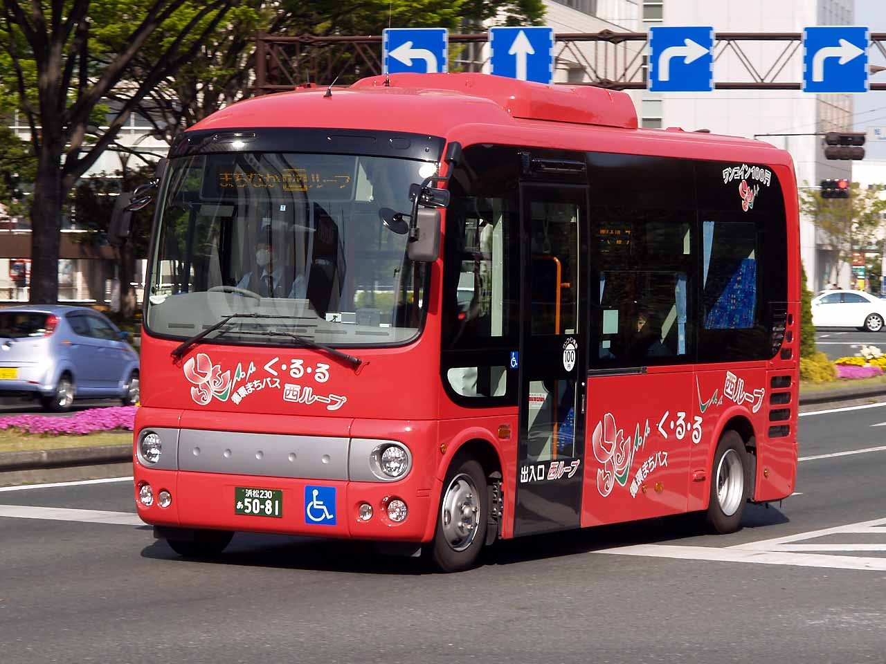 Hamamatsu city circulation route bus "Kururu" fleet since 2007. Model: Hino Poncho HX6JHAE License plate: SZH230 A5081（浜松230あ5801） Place: Neighbour of JR Hamamatsu station: Naka ward, Hamamatsu city, Shizuoka Japan